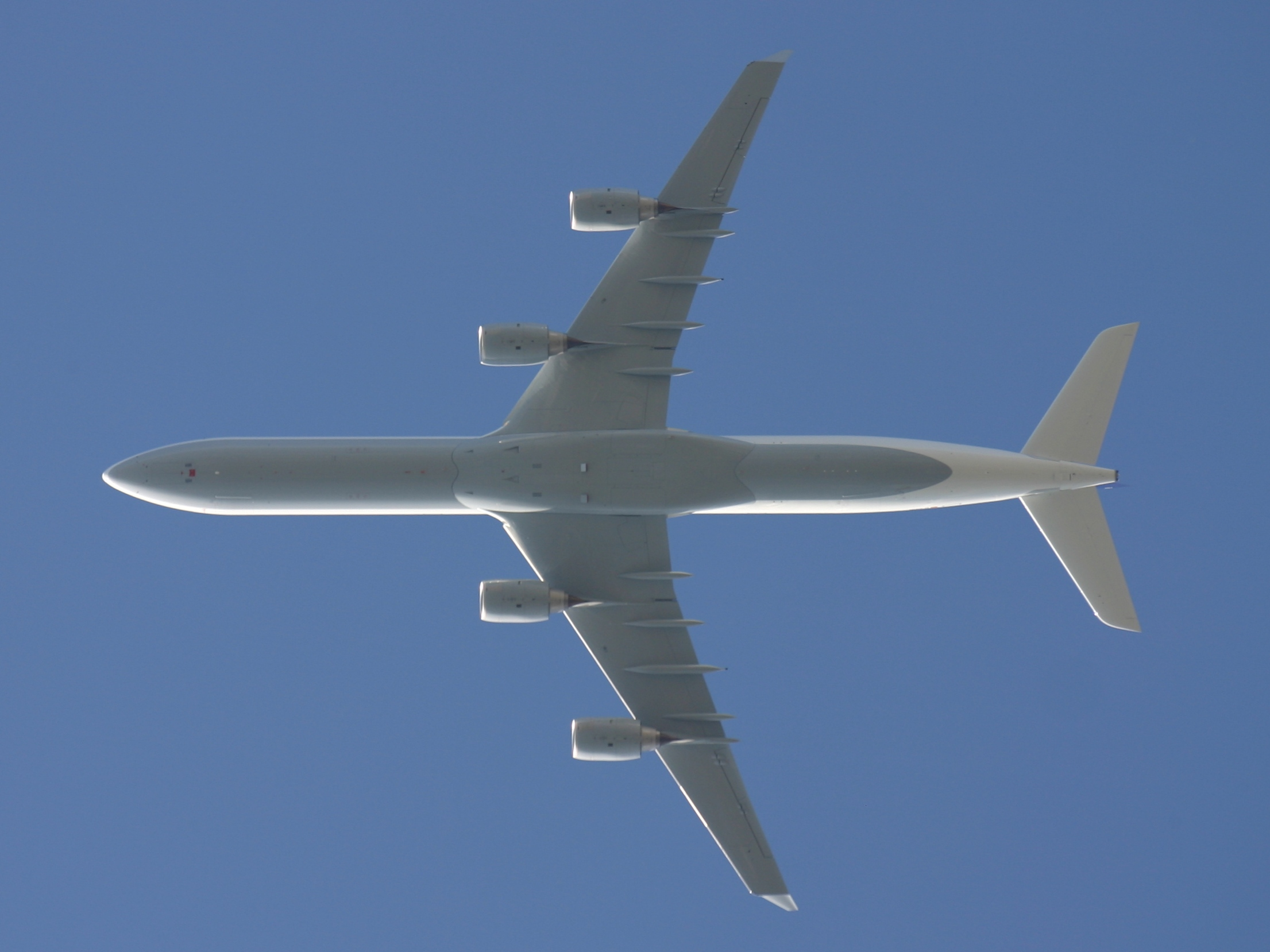 An Airbus 340-600 photographed above Toulouse during a test flight in 2007. The aircraft is seen in clean-wing configuration (with flaps and slats fully retracted).